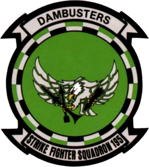 Insignia of the U.S. Navy Strike Fighter Squadron 195 (VFA-195) "Dambusters". The insignia was approved on 30 August 1985.